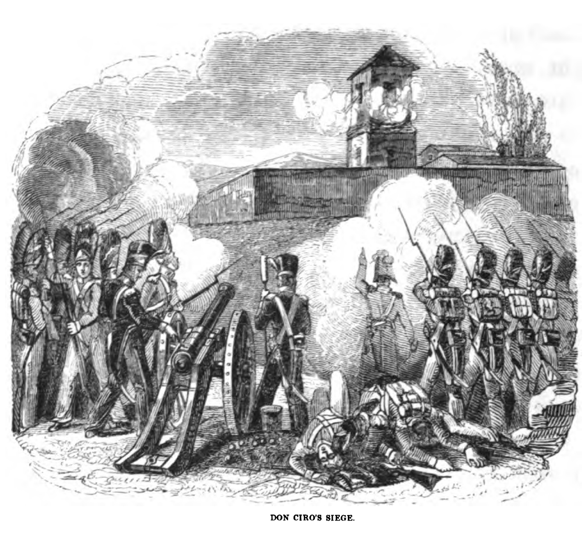 The final siege to brigand papa Ciro